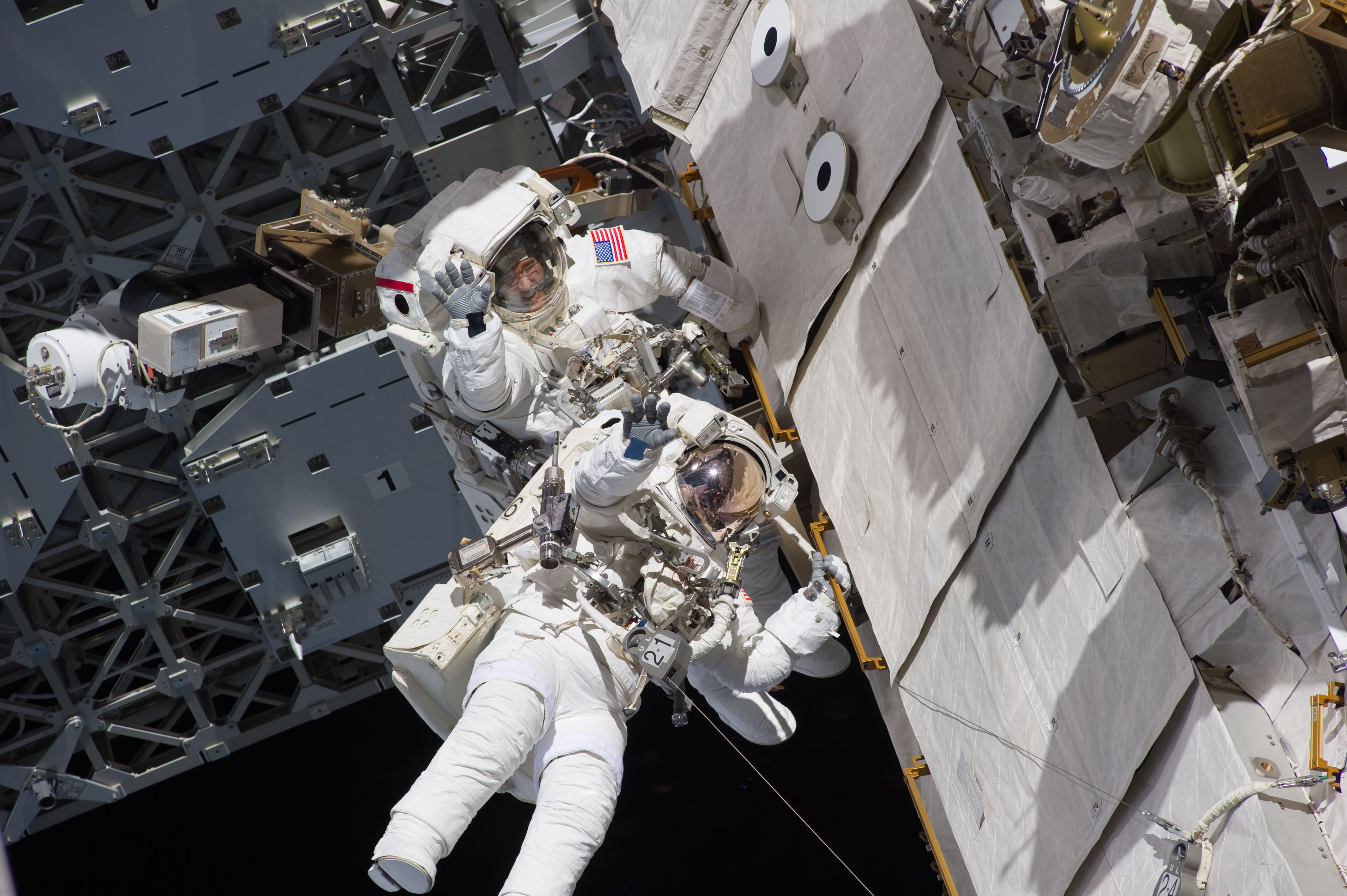 NASA astronauts Steve Bowen and Alvin Drew, both STS-133 mission specialists, participate in the mission's first session of extravehicular activity (EVA) as construction and maintenance continue on the International Space Station. During the six-hour, 34-minute spacewalk, Bowen and Drew installed the J612 power extension cable, move a failed ammonia pump module to the External Stowage Platform 2 on the Quest Airlock for return to Earth at a later date, installed a camera wedge on the right hand truss segment, installed extensions to the mobile transporter rail and exposed the Japanese "Message in a Bottle" experiment to space.